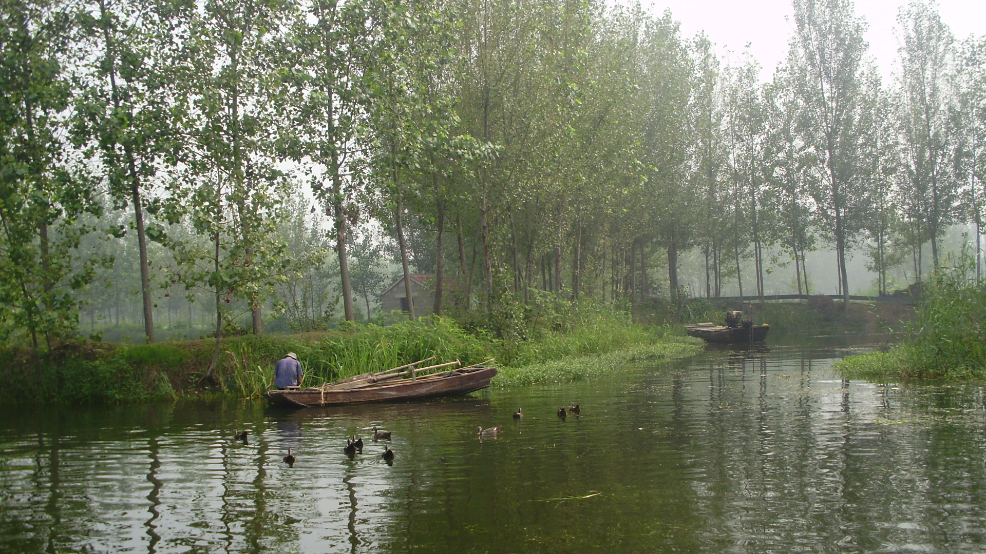 A cornor of Weishan Lake, China